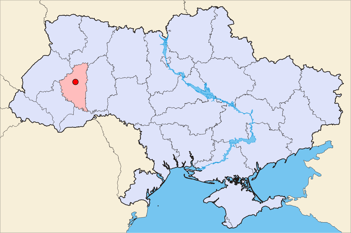 Description = Ternopil geographical position Source = own work, Skluesener Date = 15.01.2006 Author = Skluesener Credits = Colours chosen according to a map of steschke